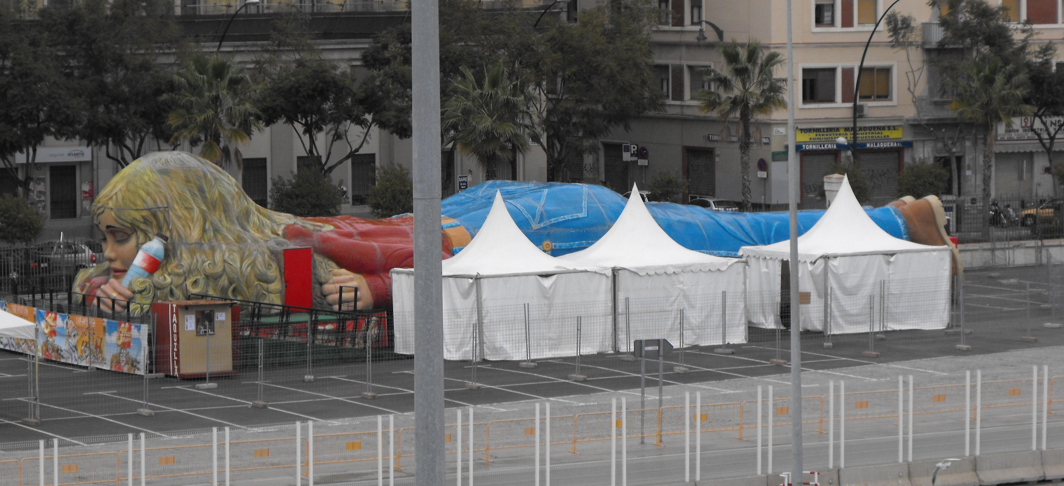 Exposition "La Mujer Gigante" (The Gigantic Woman) in Malaga- exterior